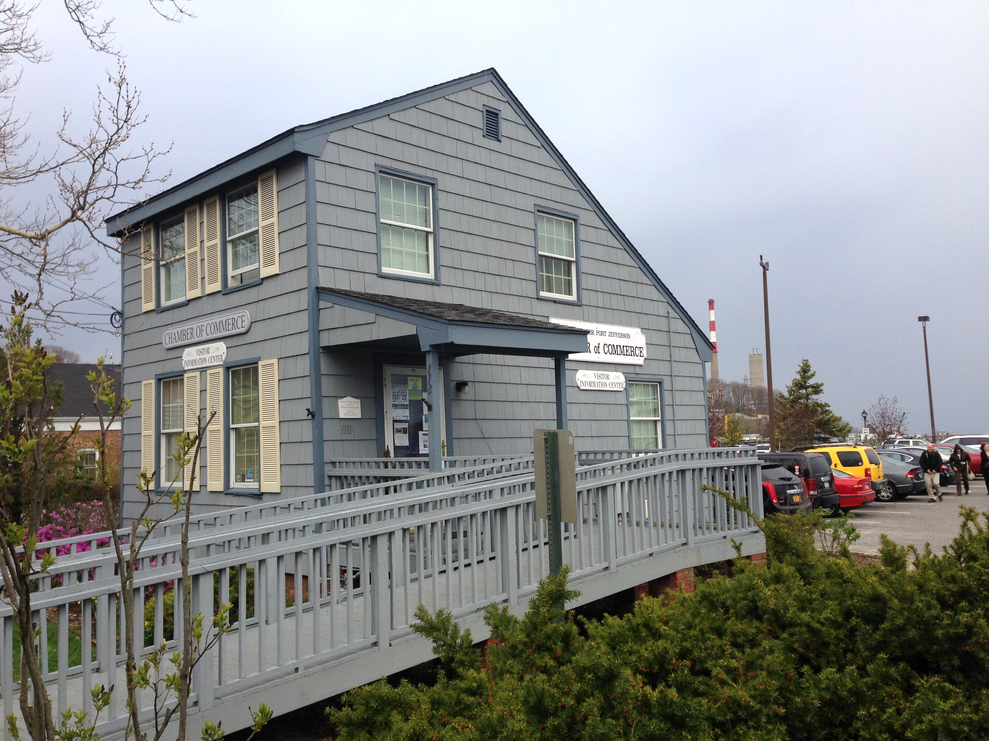 The c.1682 house of Joe Roe, the first settler of Port Jefferson, New York. The house remains in the village and is currently used as the local chamber of commerce.